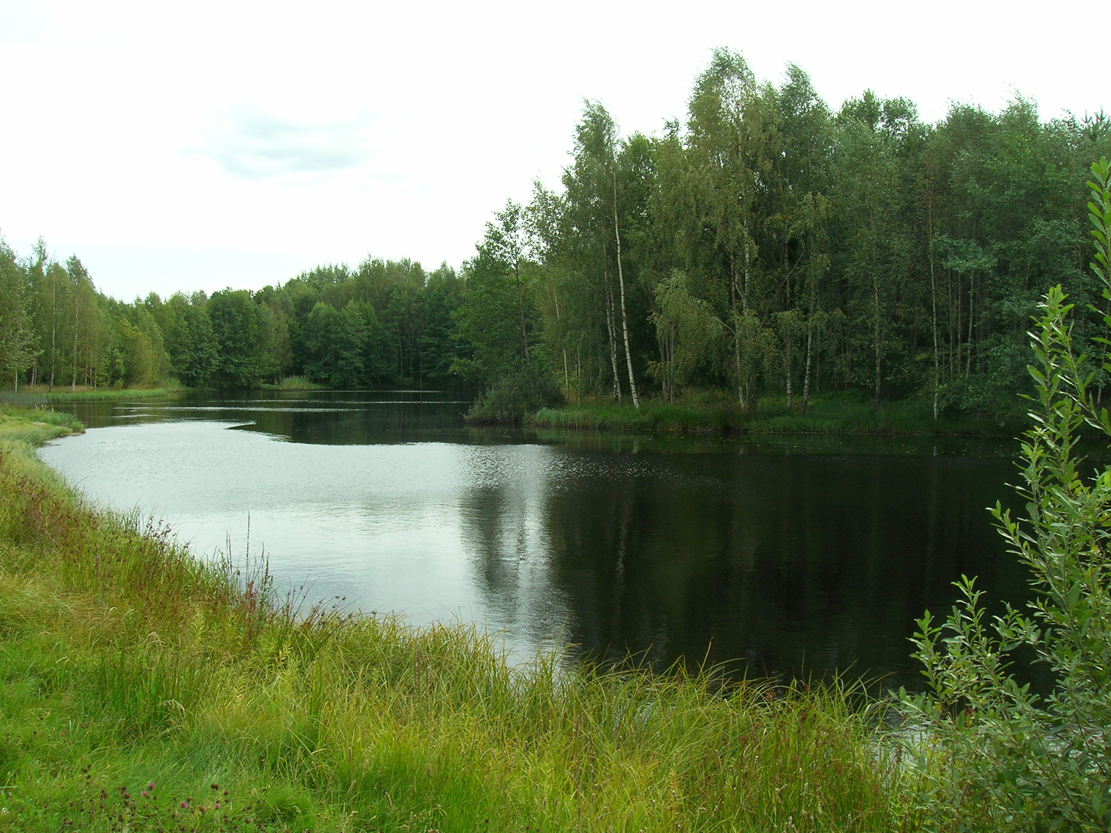 Prestegårdsvannet in Nøtterøy, Vestfold, Norway